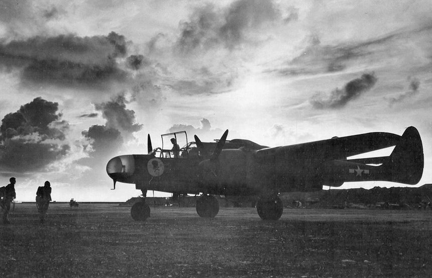 P-61A-1-NO Black Widow s/n 42-5524 of the 6th Night Fighter Squadron. Being readied for a mission, East Field, Saipan, Mariana Islands, September 1944. The SCR-720 radar's parabolic dish antenna can be clearly seen through the partially transparent radome.